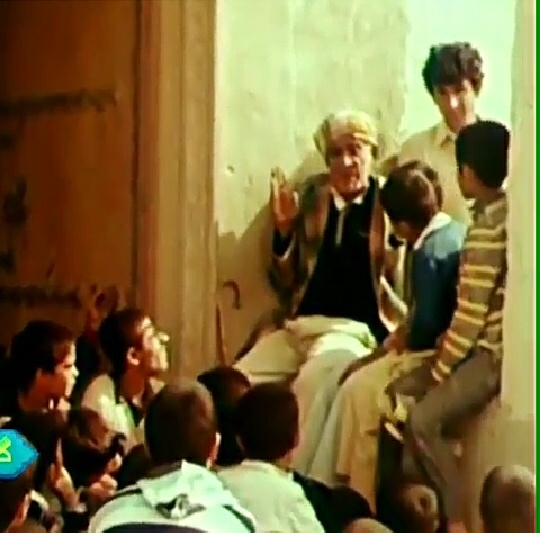 mohammad niroomand